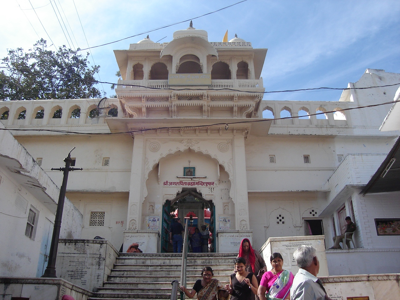 Brahma temple Pushkar.It has very close connecion with the Gurjar community as Gayatri, the consort of God Brahma belonged to the Chechi clan of the Gurjars. Priests in this temple are from Gurjar communty only.